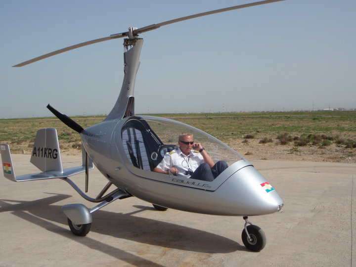 Preparing for take off in Erbil